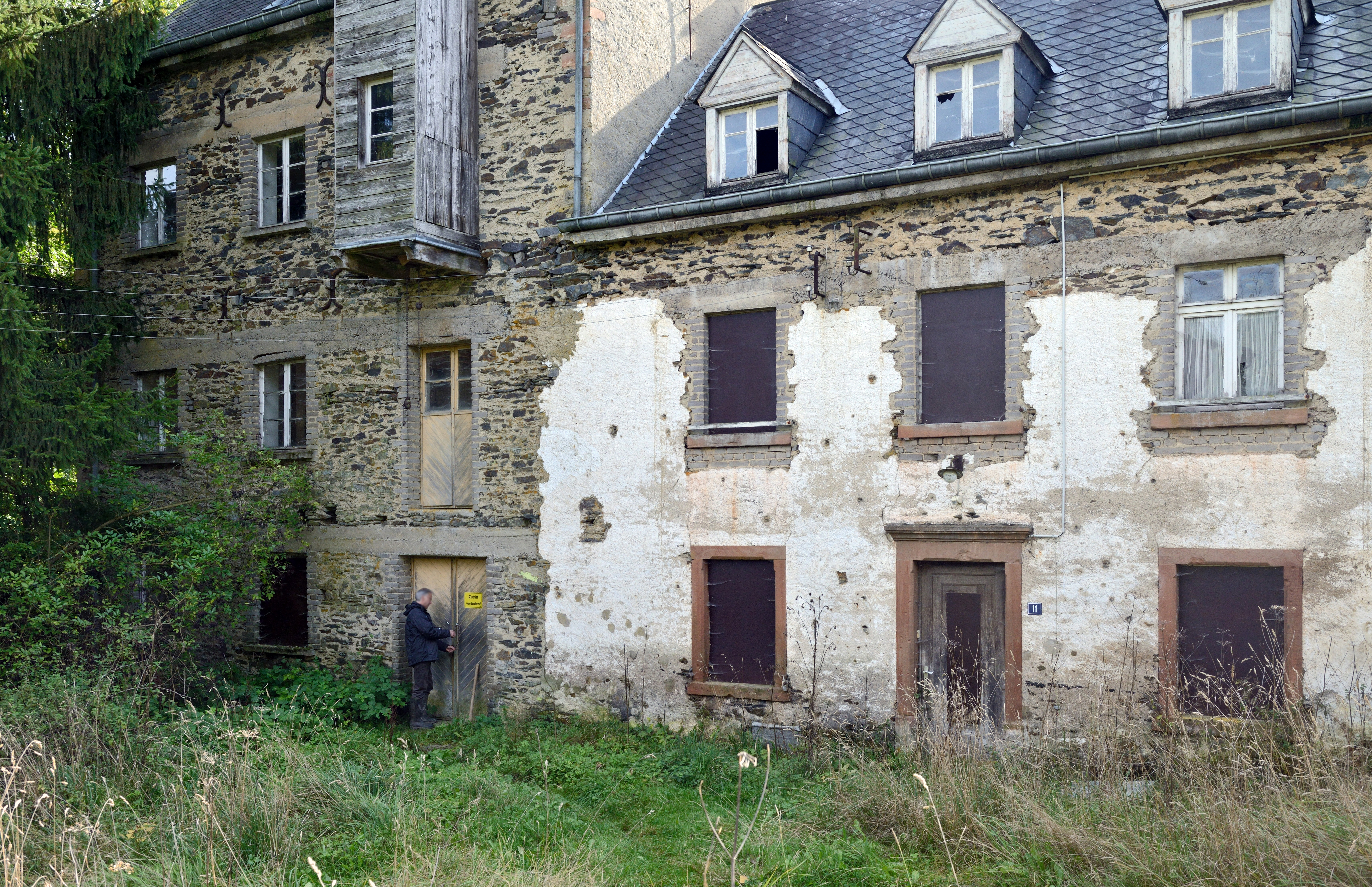 Luxembourg, municipality of Winseler, former mill at Schleif.